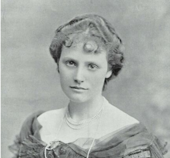 Clodagh Beresford (6 August 1879 - 17 April 1957), was a philanthropist, writer and member of the aristocracy.